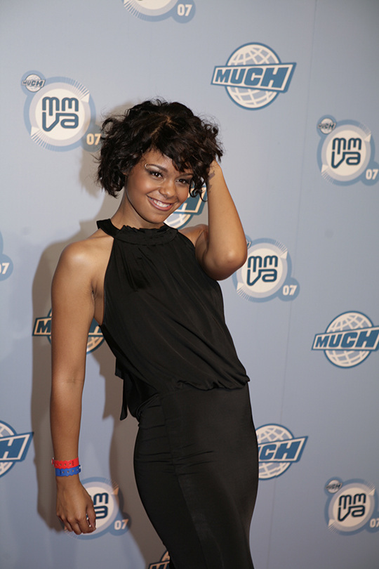 Fefe Dobson was an attendee at the 2007 MuchMusic Video Awards, held the night of Sunday, June 17, 2007 in Toronto, Ontario, Canada.